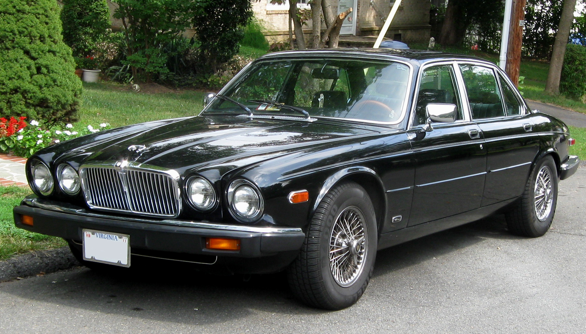 Jaguar XJ6 photographed in Fairfax, Virginia, USA.